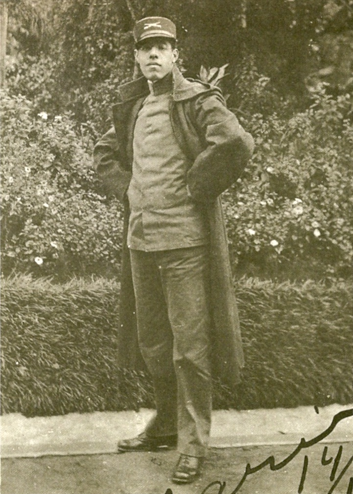 Brazilian poet Mário de Andrade, 1916.